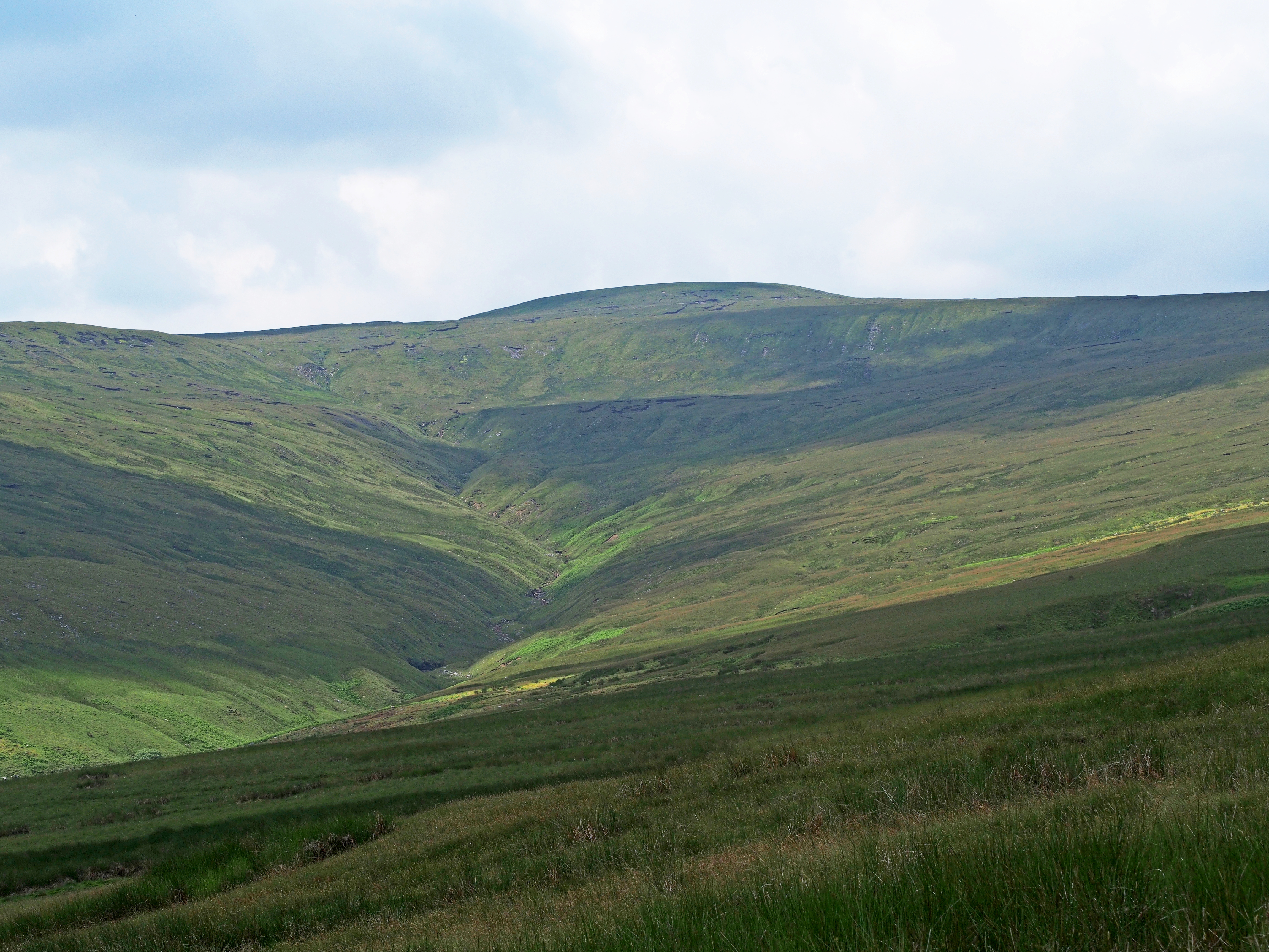 View towards Great Shunner Fell from the north-east (Far Dale Gill)